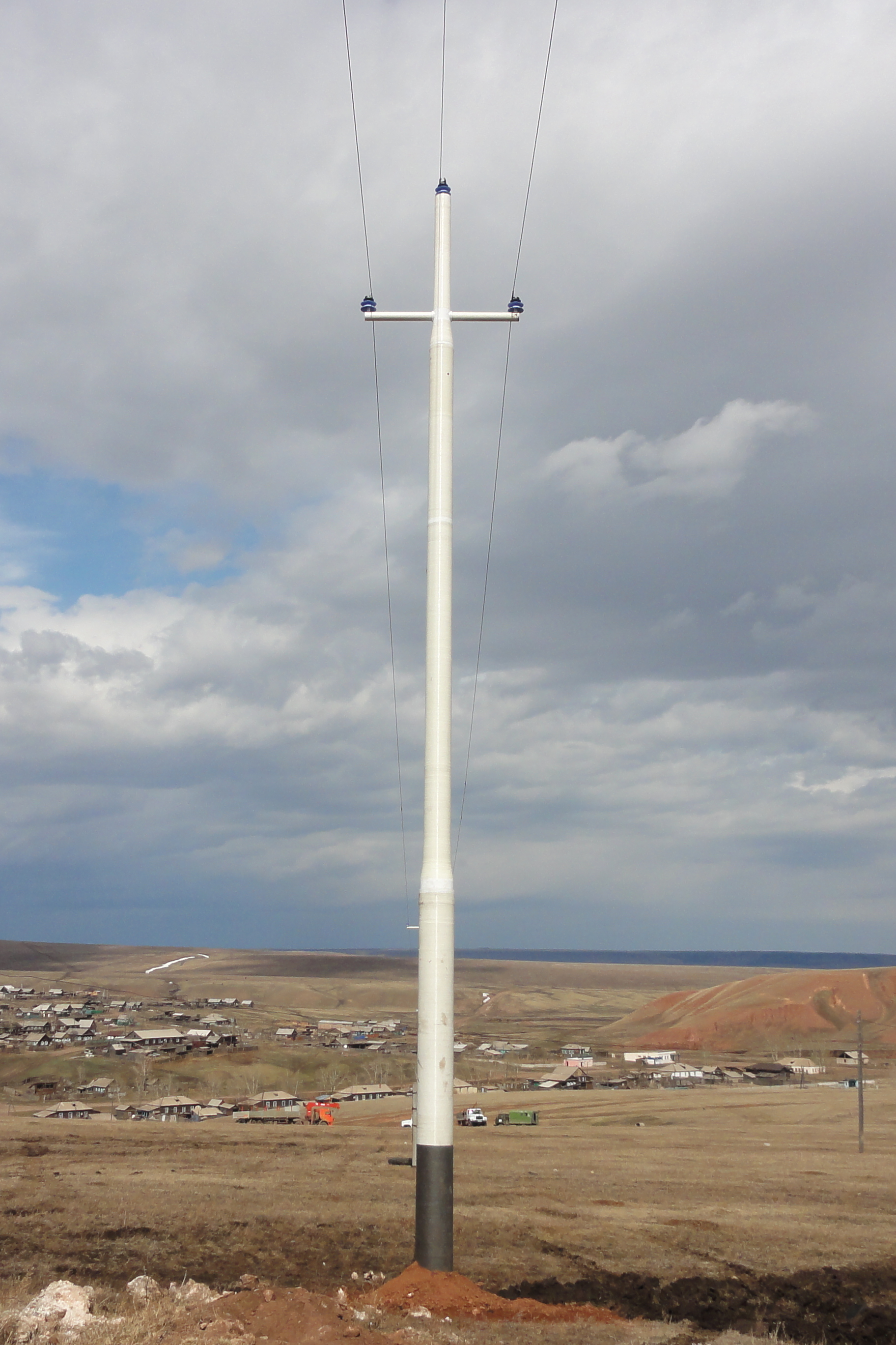 Reconstruction of power transmission lines Bahtay-Zakuley in the Irkutsk region. Outdated and worn wooden supports are replaced with modern composite material (fiberglass)